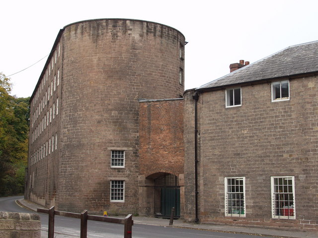 Arkwright Mill entrance Original "fortified" entrance to Arkwright's mill